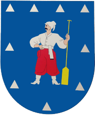 Lotsmanskaya Kamenka village emblem